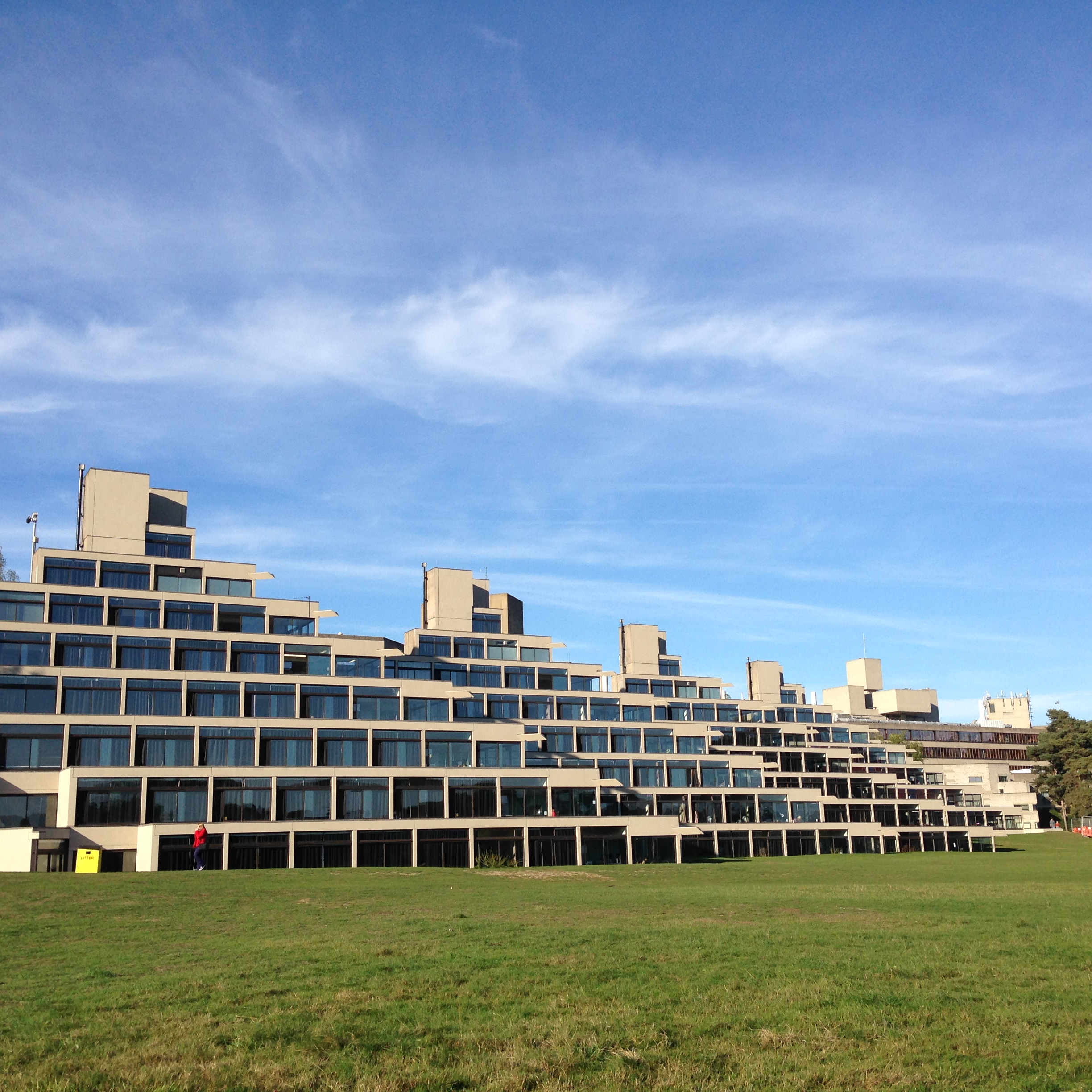 Norfolk Terrace and Attached Walkways, at the University of East Anglia